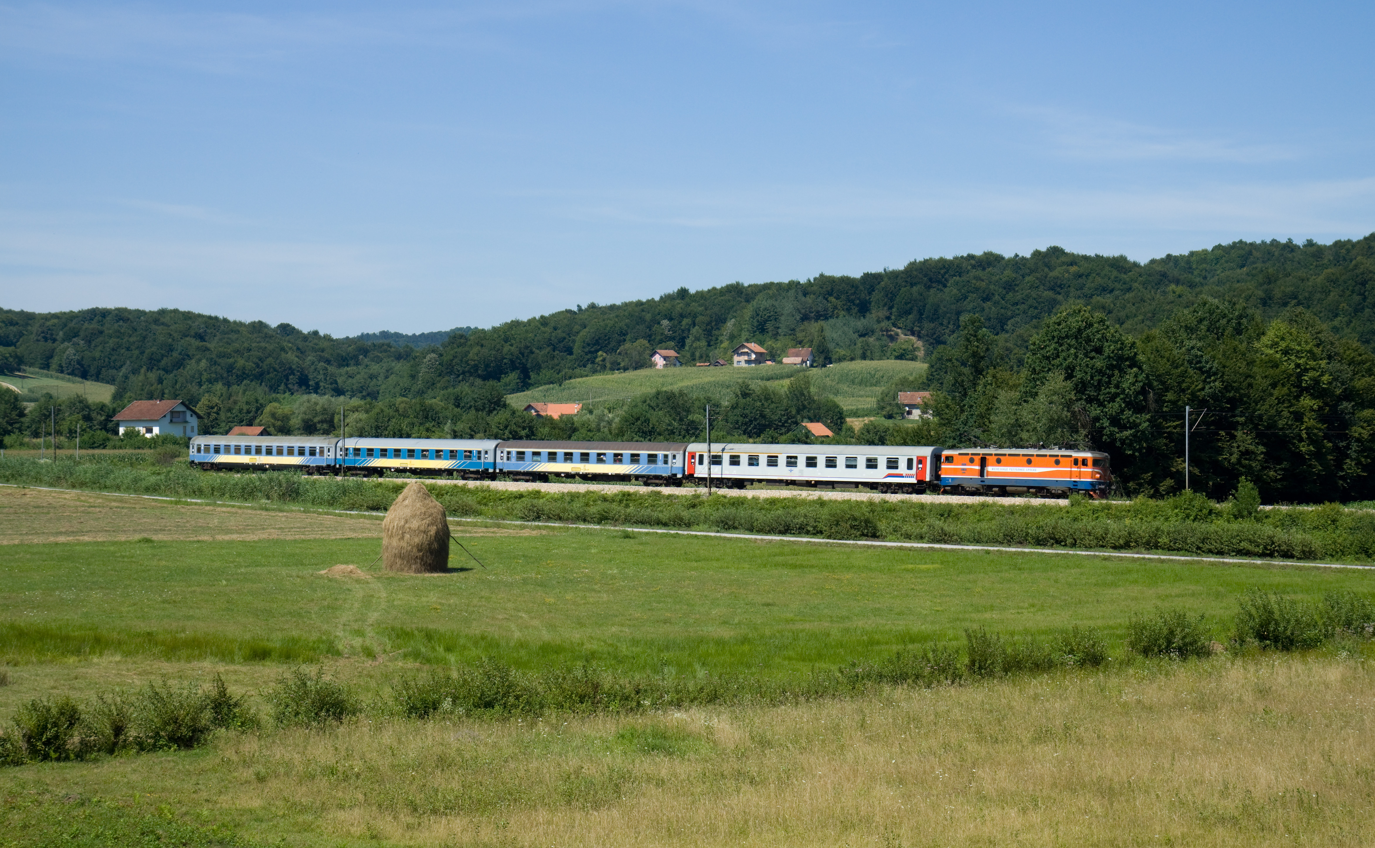 Intercity train from Zagreb to Ploce, hauled by a Željeznice Republike Srpske class 441, between Ljeskove Vode and Rakovac, Bosnia and Herzegovina.